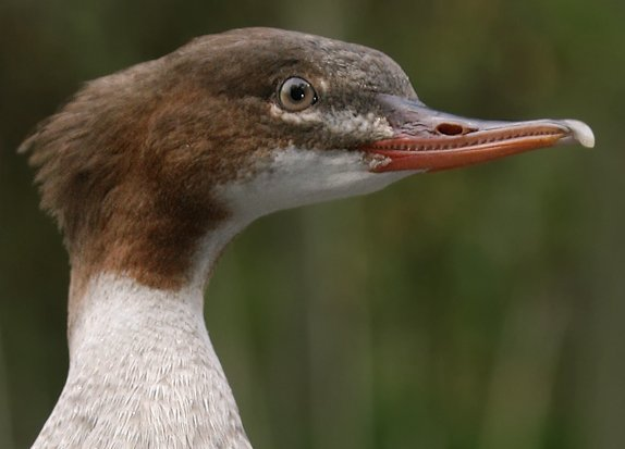 Description: The Common Merganser, (Goosander in Europe), Mergus merganser, is a large sized duck, which is distributed over Europe, North Asia and North America. It is most common on lakes and rivers. Its nests can be found in treeholes.